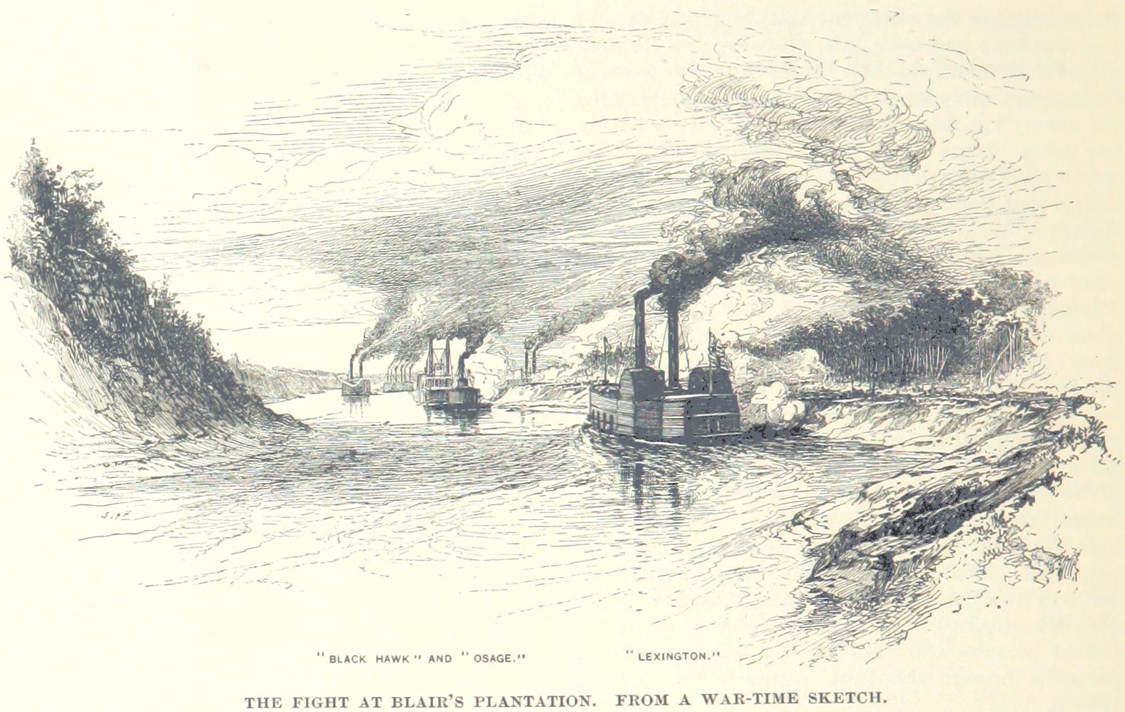 On 12 April 1864, Union gunboats engage Confederate infantry at the Battle of Blair's Landing.